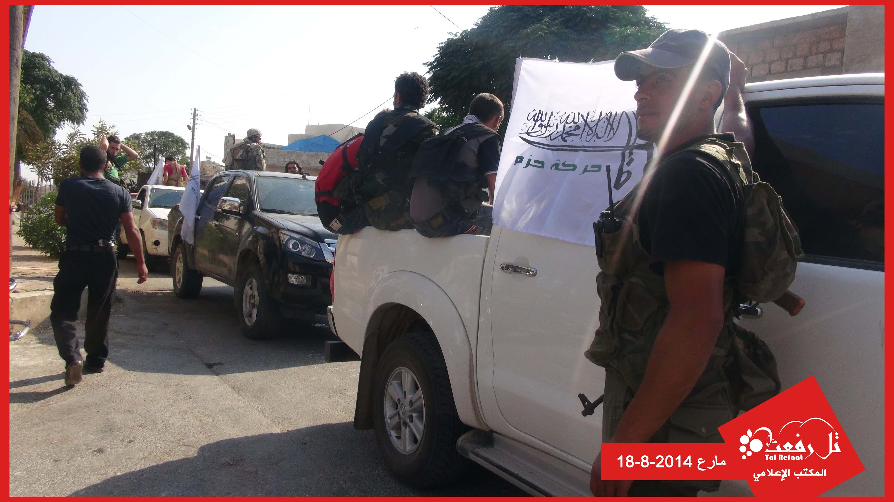 A convoy of Hazzm Movement fighters in the town of Mare' in northern Syria.